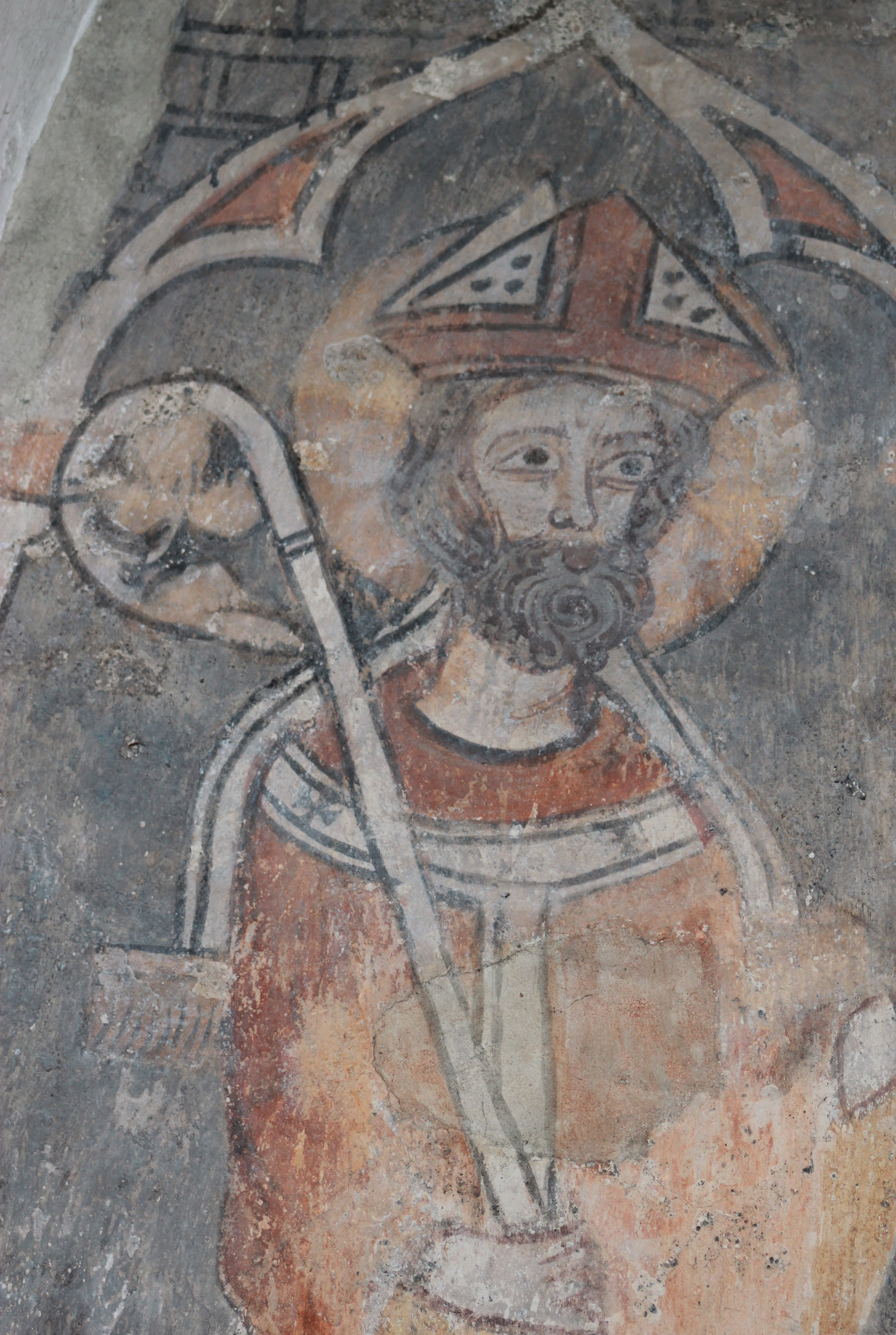 Parish church Gradenegg in the community of Liebenfels - Saint Nicholas